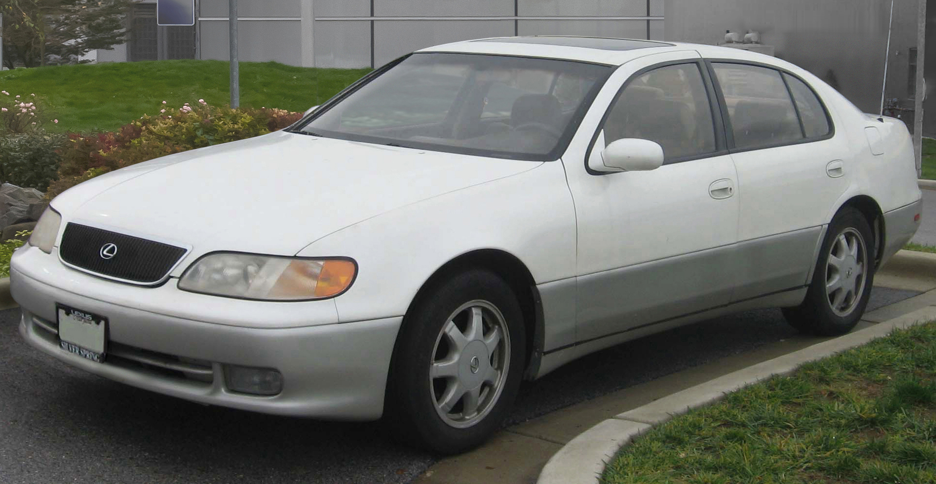 1994-1997 Lexus GS photographed in College Park, Maryland, USA.